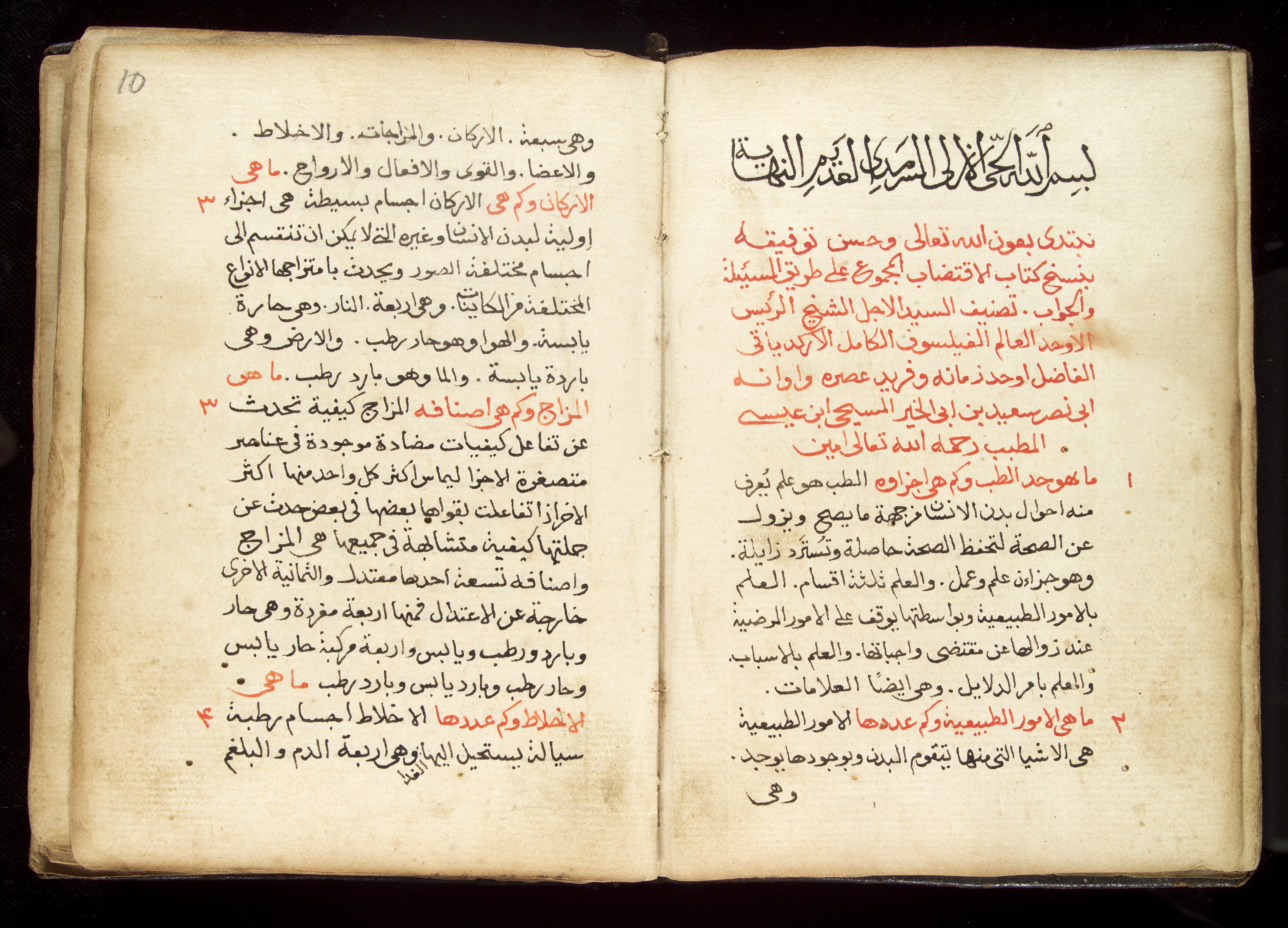 Pages from Intihab al-Iqtidab, an Arabic medical text in naskh script, Asian Collection Keywords: Arabic